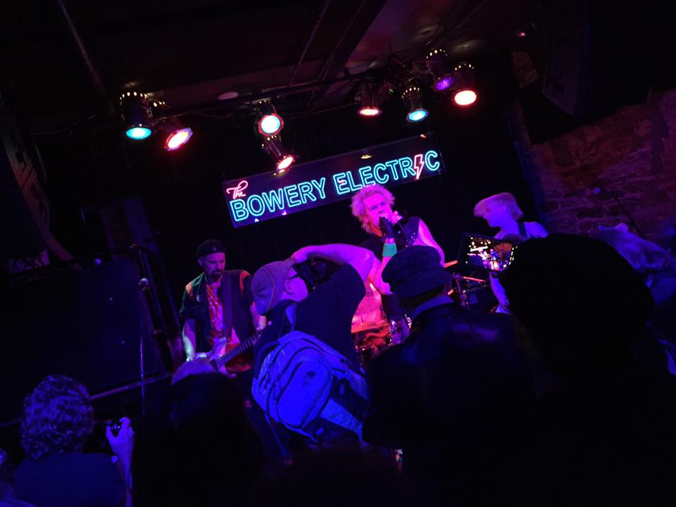 Reagan Youth performing at Max's Kansas City Festival at Bowery Electric - 25th of May 2017